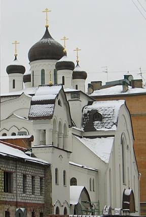 The Church of the Sign of Holy Virgin (the Church of Our Lady of the Sign) of Marriage-Accepting North Believers (Pomor Church, the new Old Believers Church of Pomor Accord), Tver Street (Tverskaia ulitsa), St. Petersburg. Architect Dmitri Kryzhanovskii, (Kryzhanovsky, Krzyzanowski). 1906-1907. Pseudo-Russian (Novgorodian) style with elements of Art Nouveau.